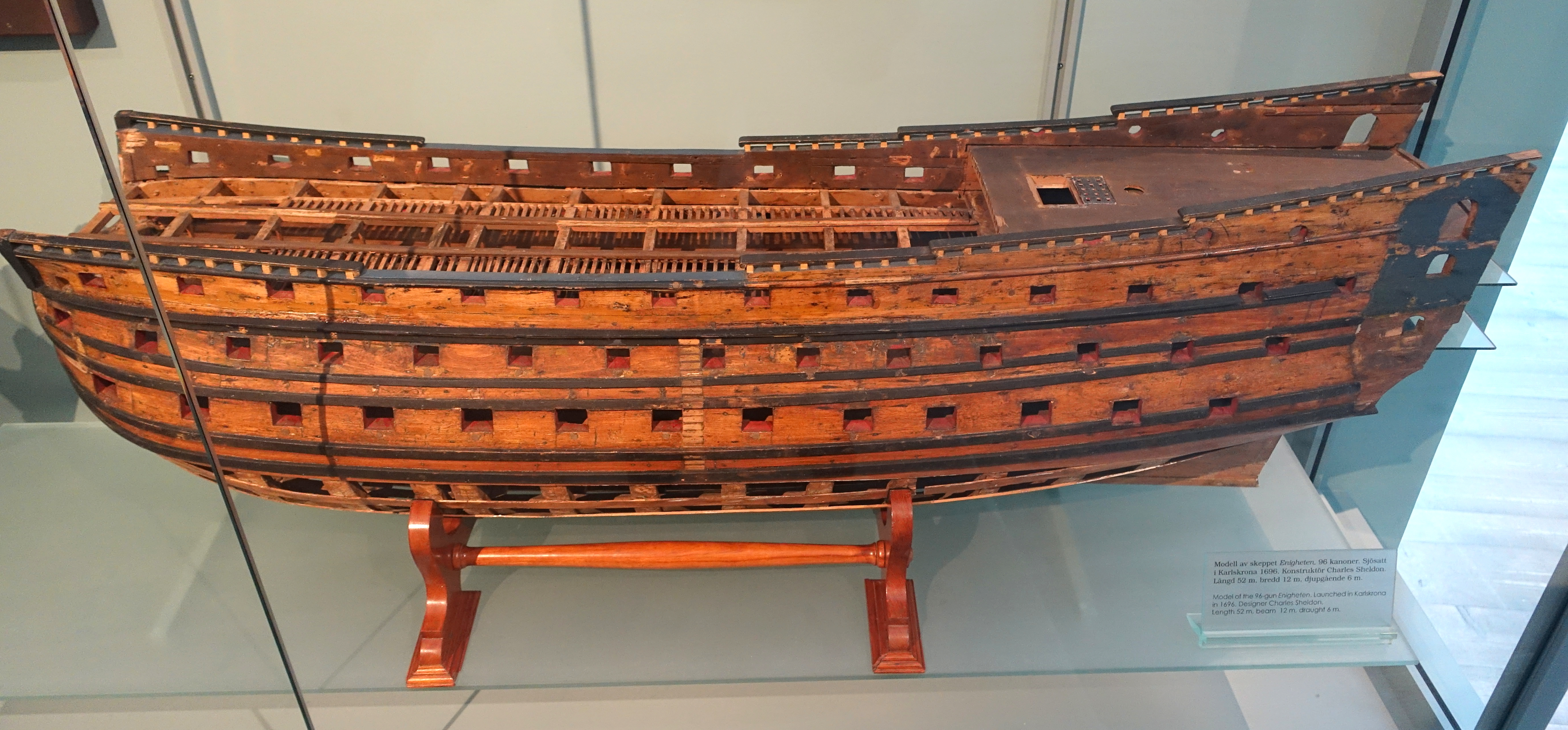 Exhibit in the Marinmuseum, Karlskrona, Sweden. This exhibit is old enough so that it is in the public domain.